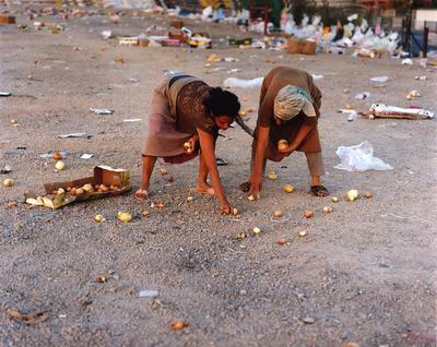 Photograph